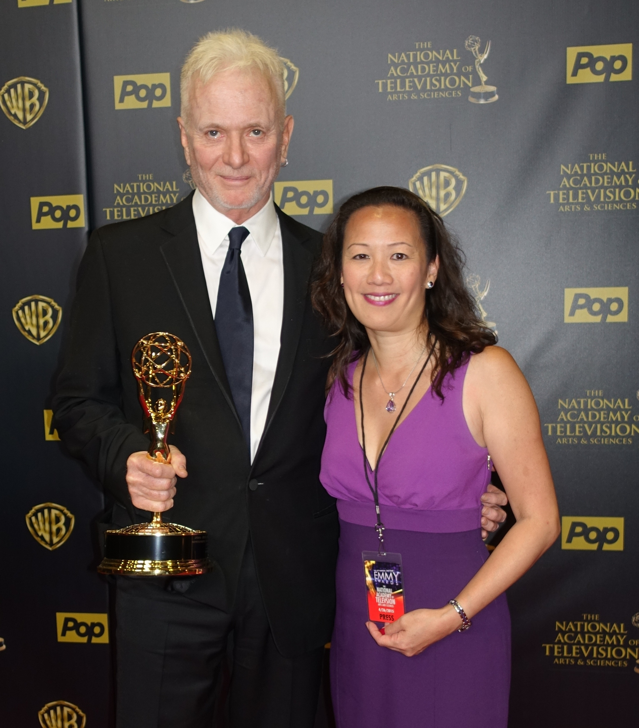 Anthony Geary holding his 8th Daytime Emmy next to General Hospital Online creator May Lee (a.k.a. Ms. Purple!!)